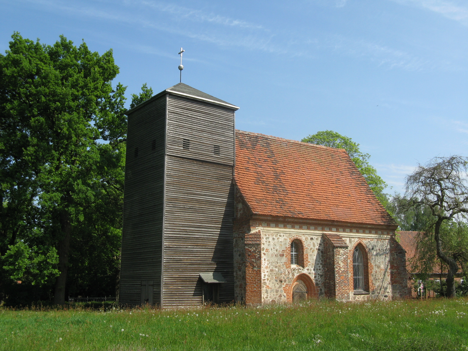 Church in Dreilützow, district Ludwigslust-Parchim, Mecklenburg-Vorpommern, Germany